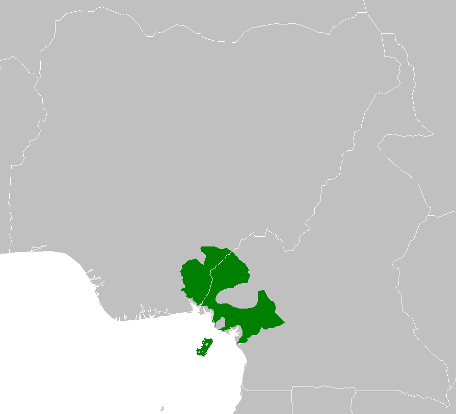 Cross-Sanaga-Bioko coastal forests